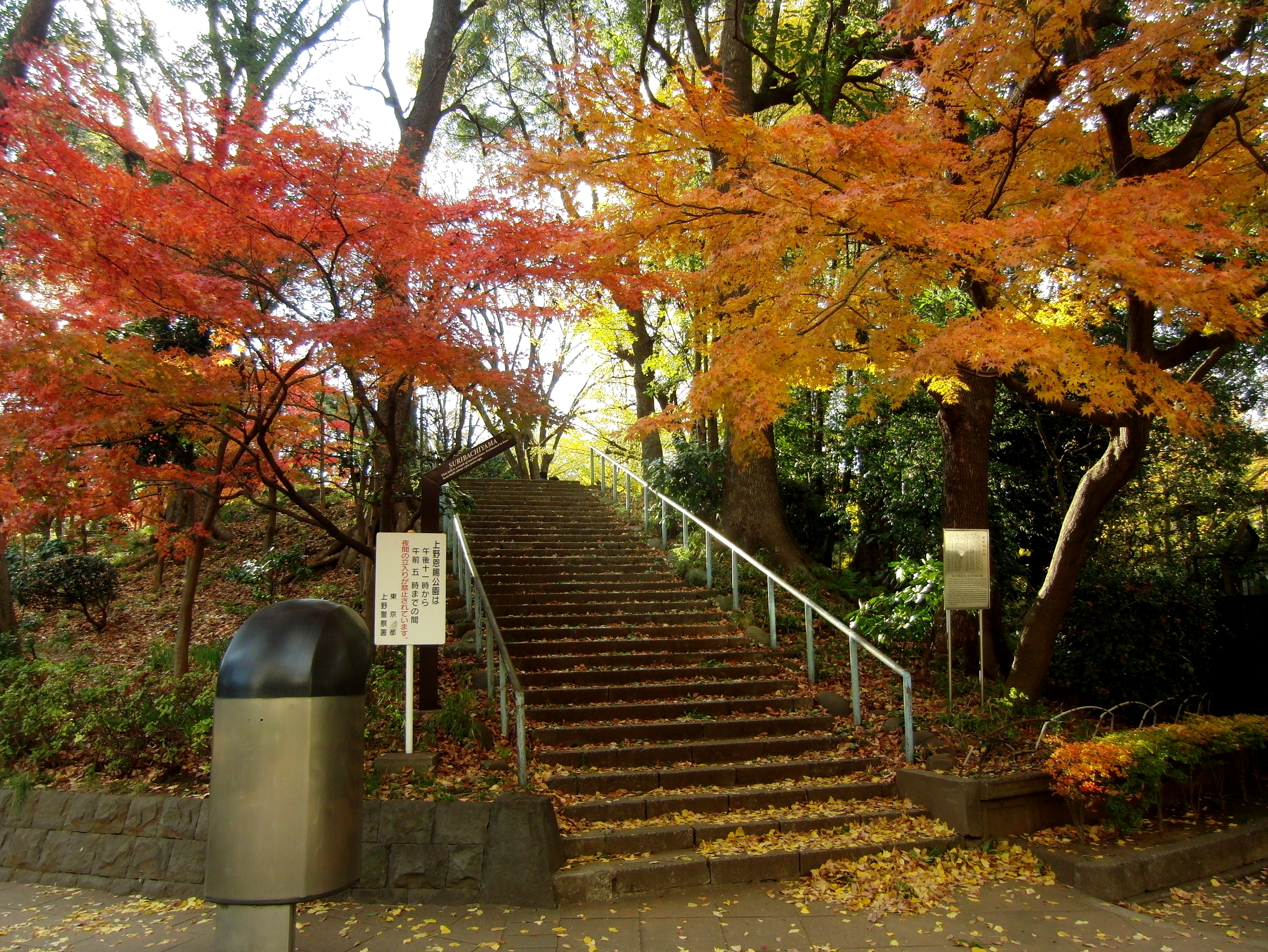 Suribachiyama Kofun, Ueno Park, Tokyo, Japan